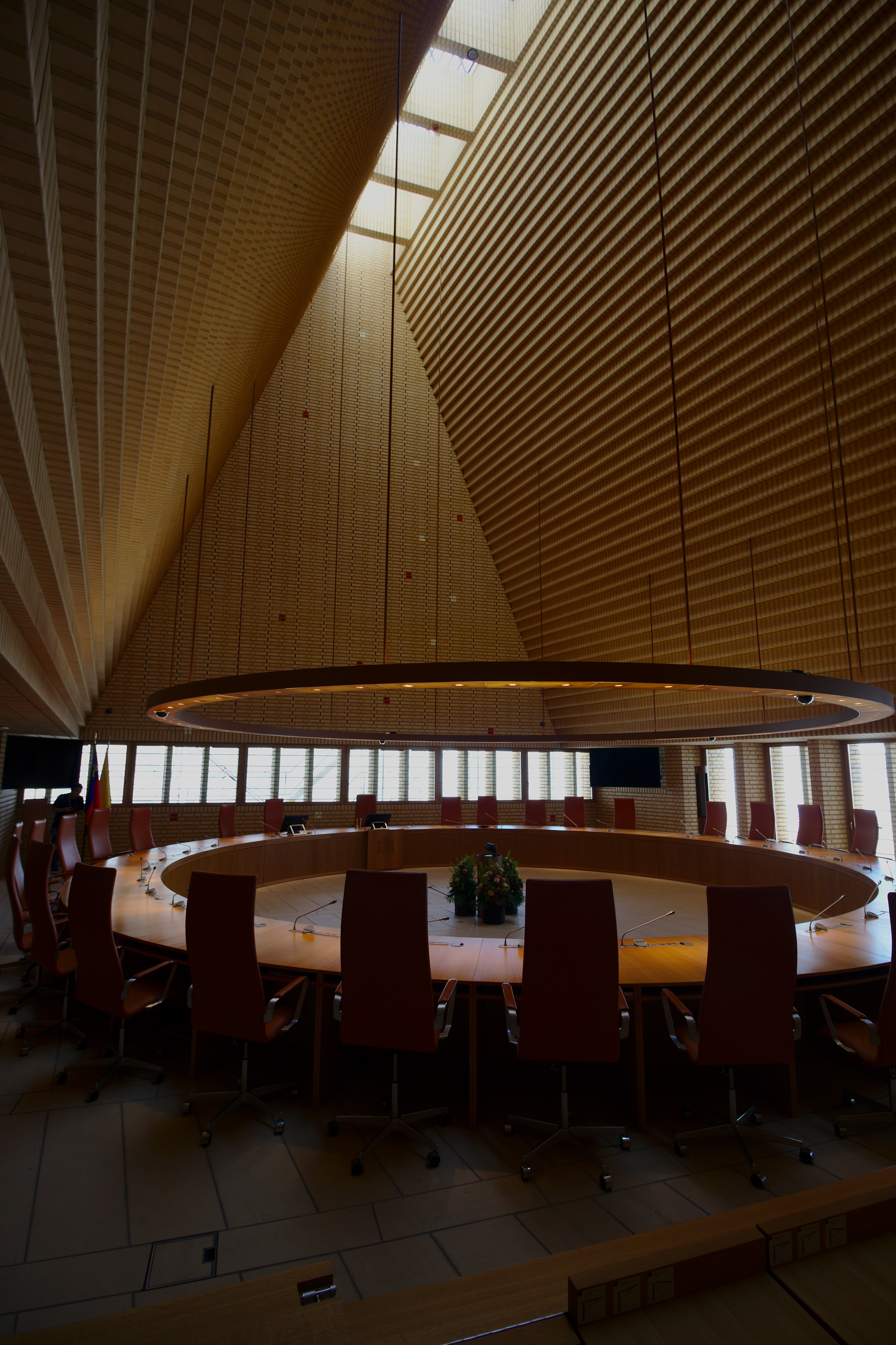 Landtag of the Principalty of Liechtenstein in Vaduz (building known as “Hohes Haus”)